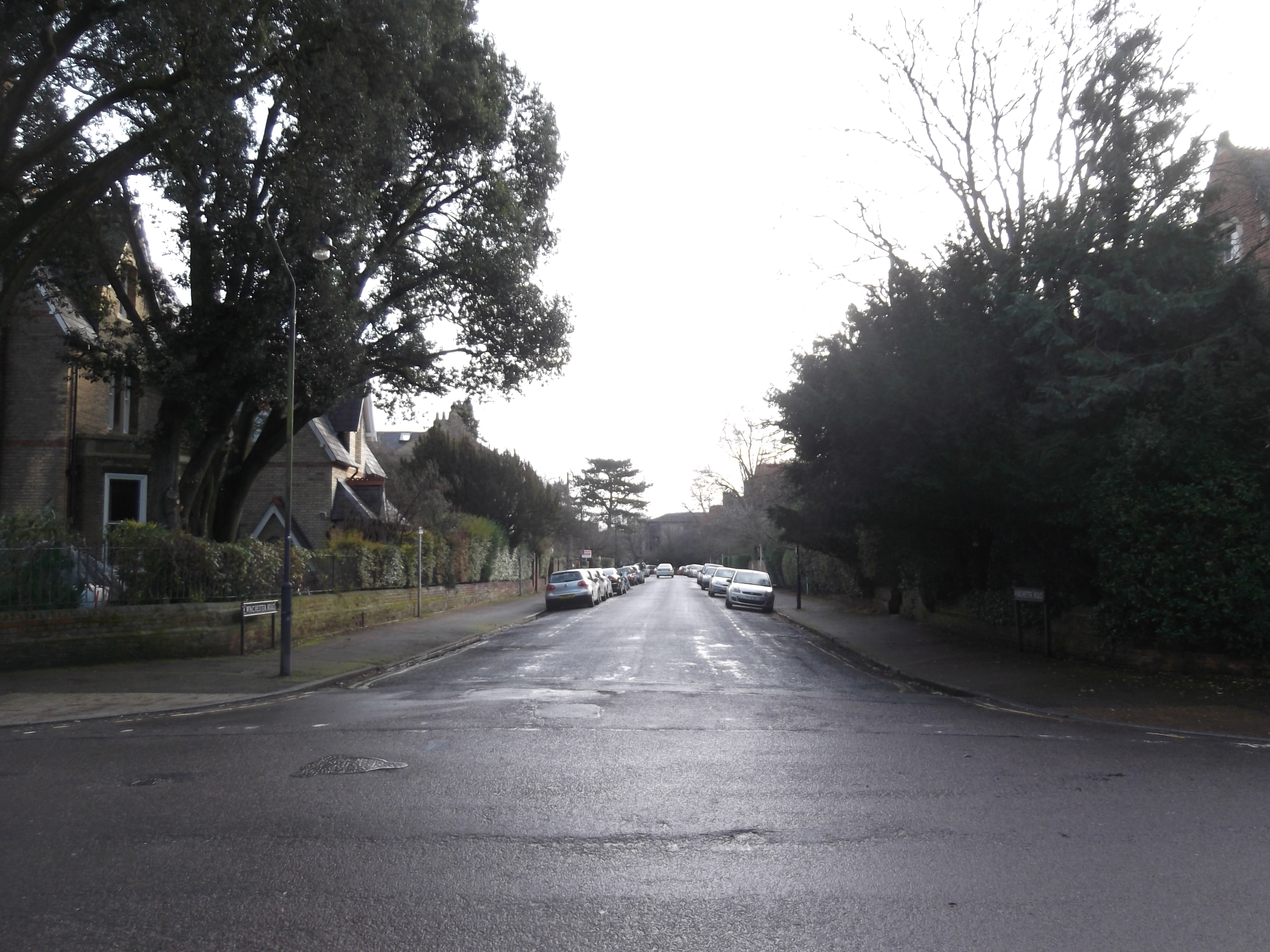 View south along Winchester Road from Canterbury Road in North Oxford, England.